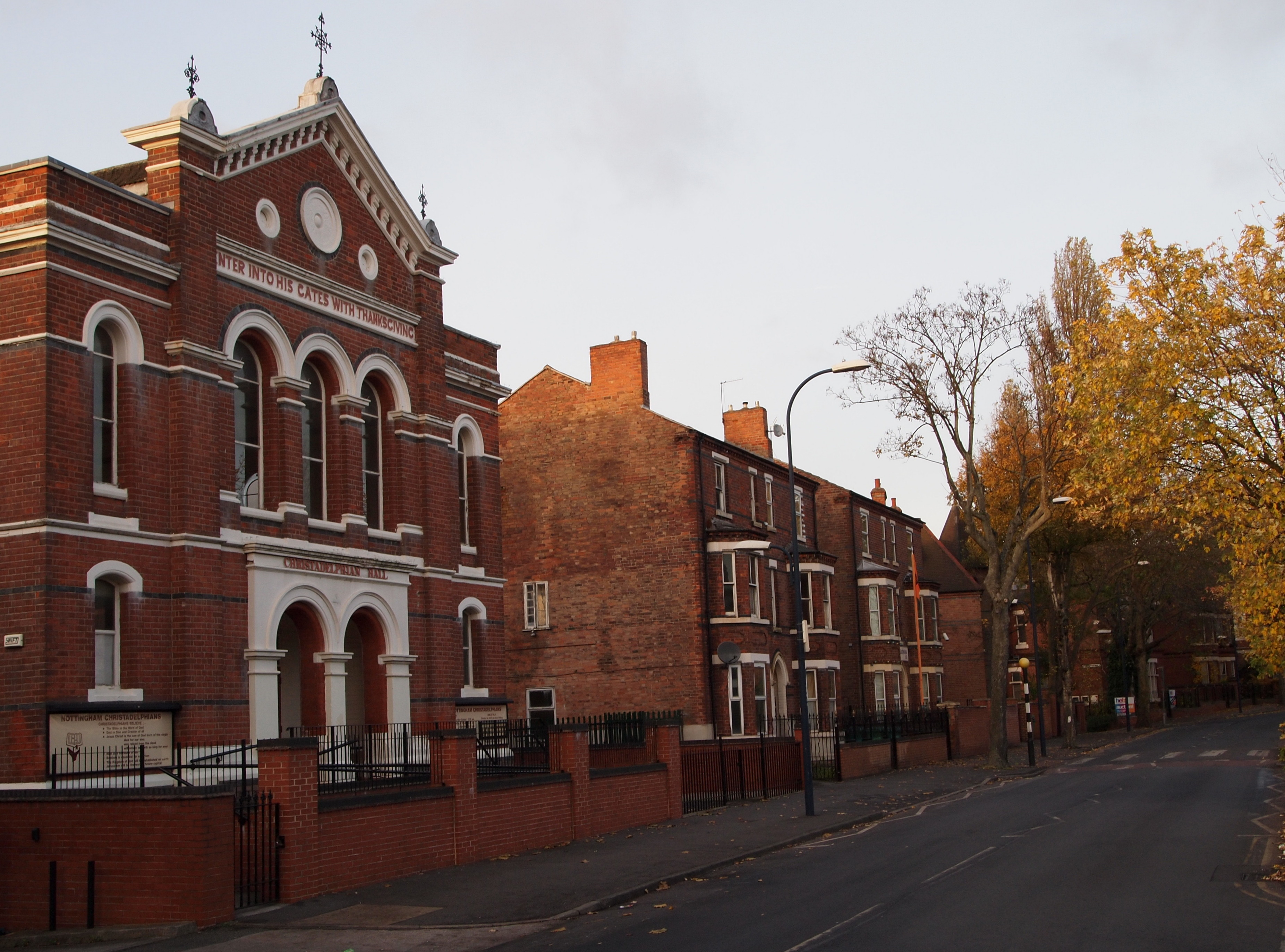 Nottingham, NG7 - Forest Road West. A Christadelphian Hall (perhaps occupying a building that was once used by another church group ?) and some terraced housing on Forest Road West.